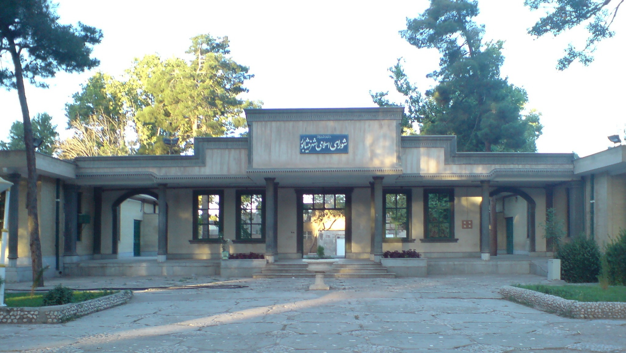 Shura_Building_of_Nishapur